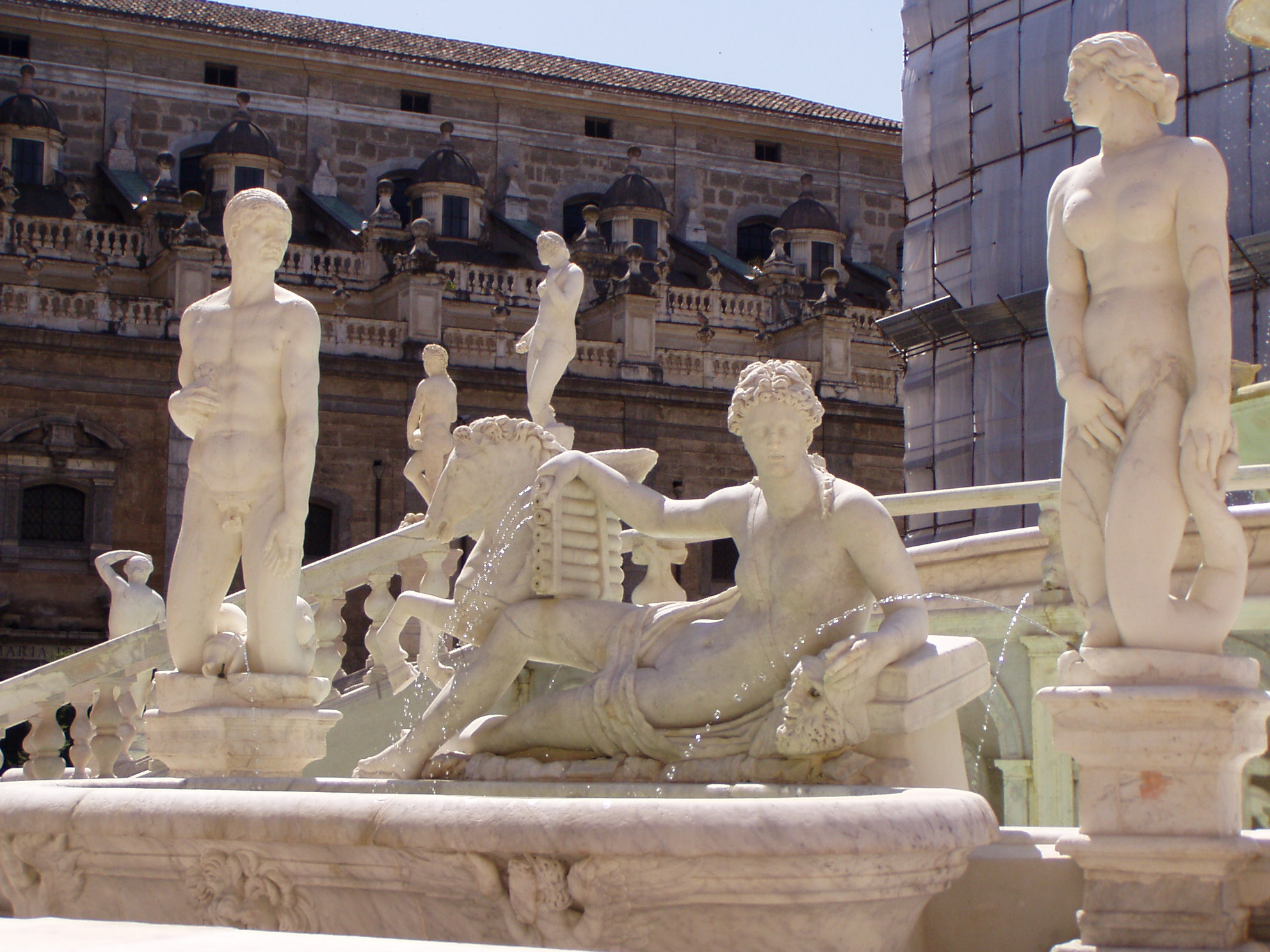 Palermo, Piazza Pretoria. Detail of fountain. (Martin Teetz, July 2005)